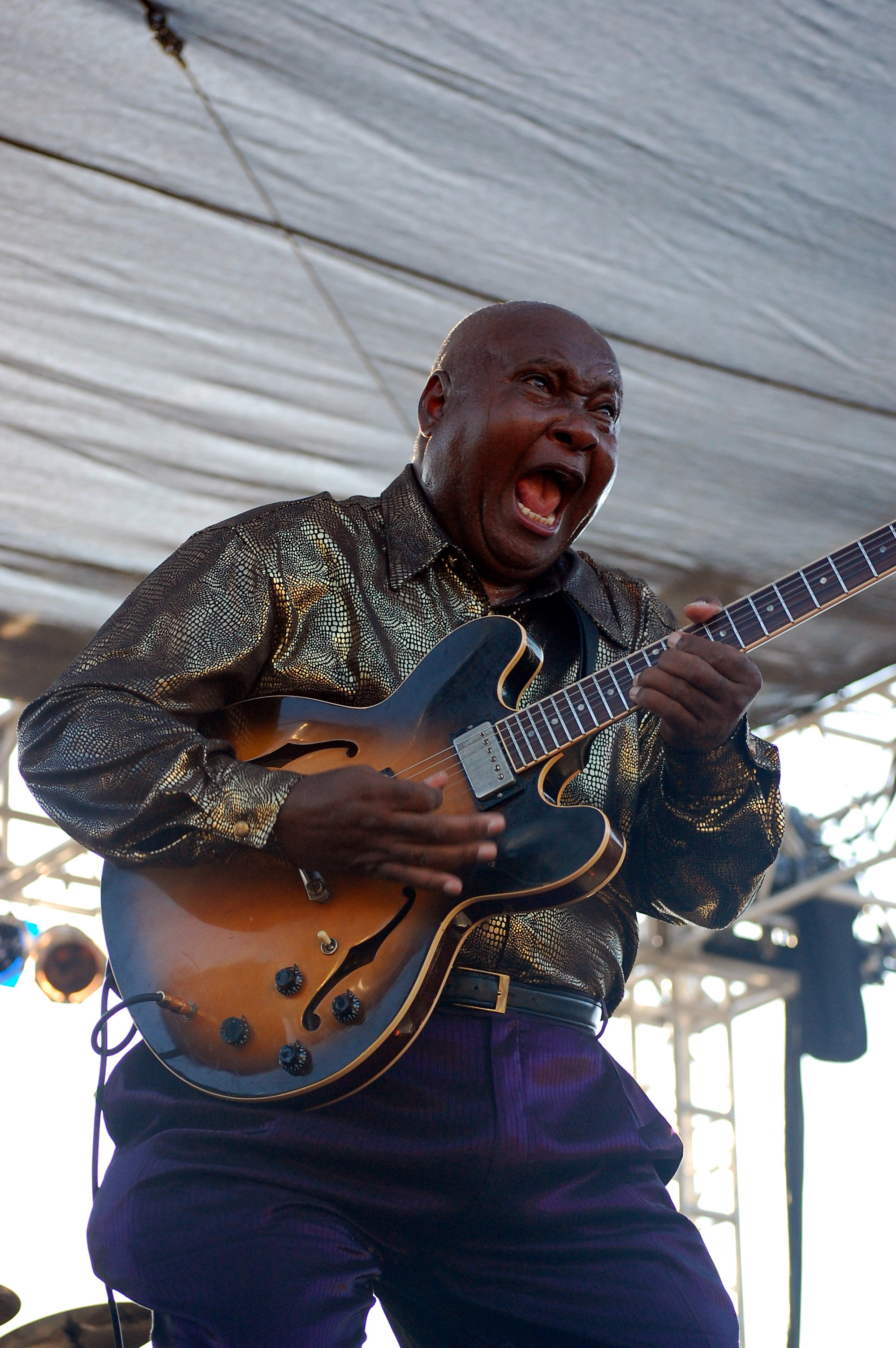 Arthur Adams live at Sunset Junction festival, Los Angeles, California, on 23 August 2008